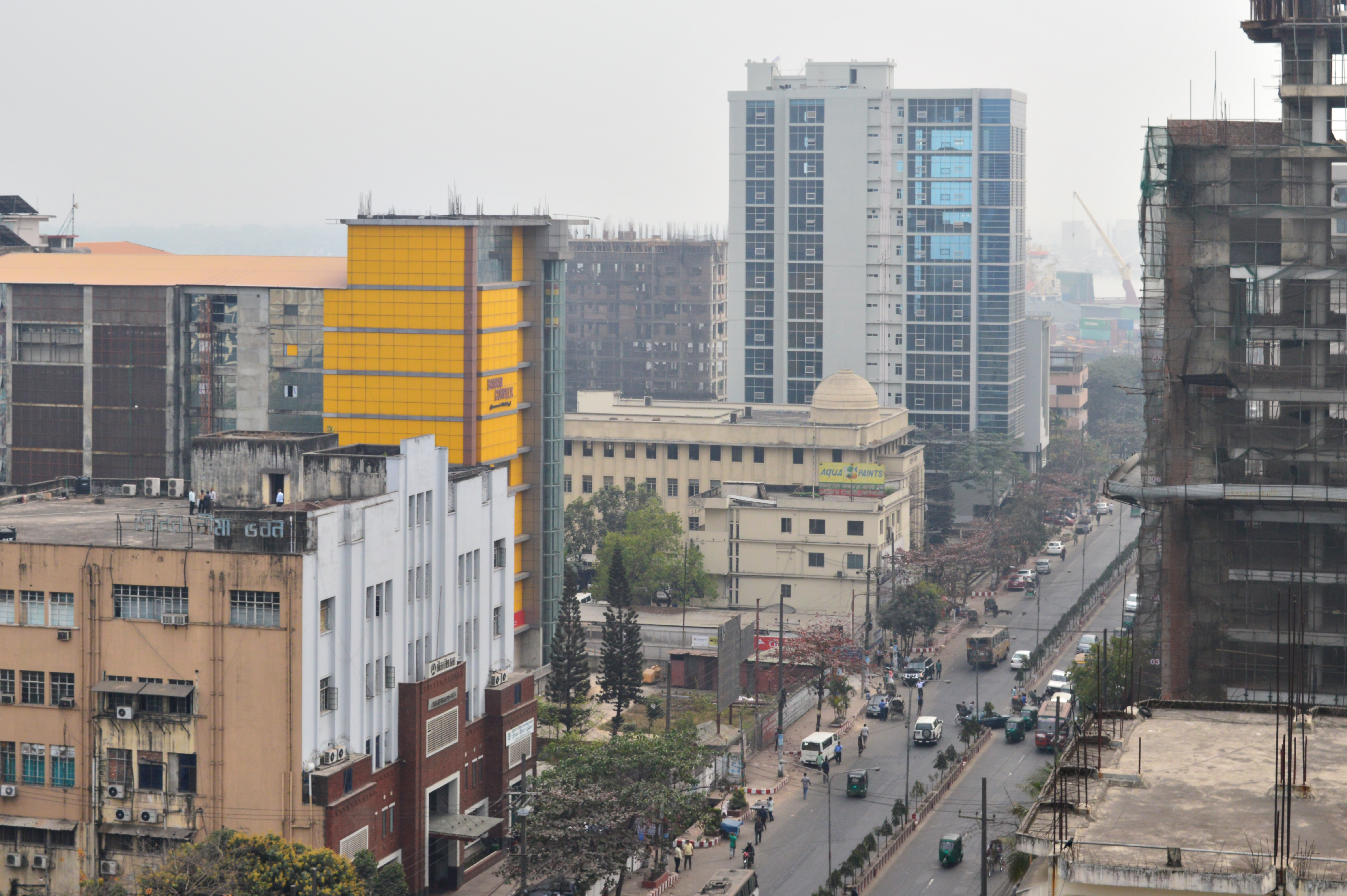 Sheikh Mujib Road (aerial view, south exposure) from C&F Tower, Agrabad, Chittagong. This road was named after Sheikh Mujibur Rahman, the independence leader of Bangladesh.